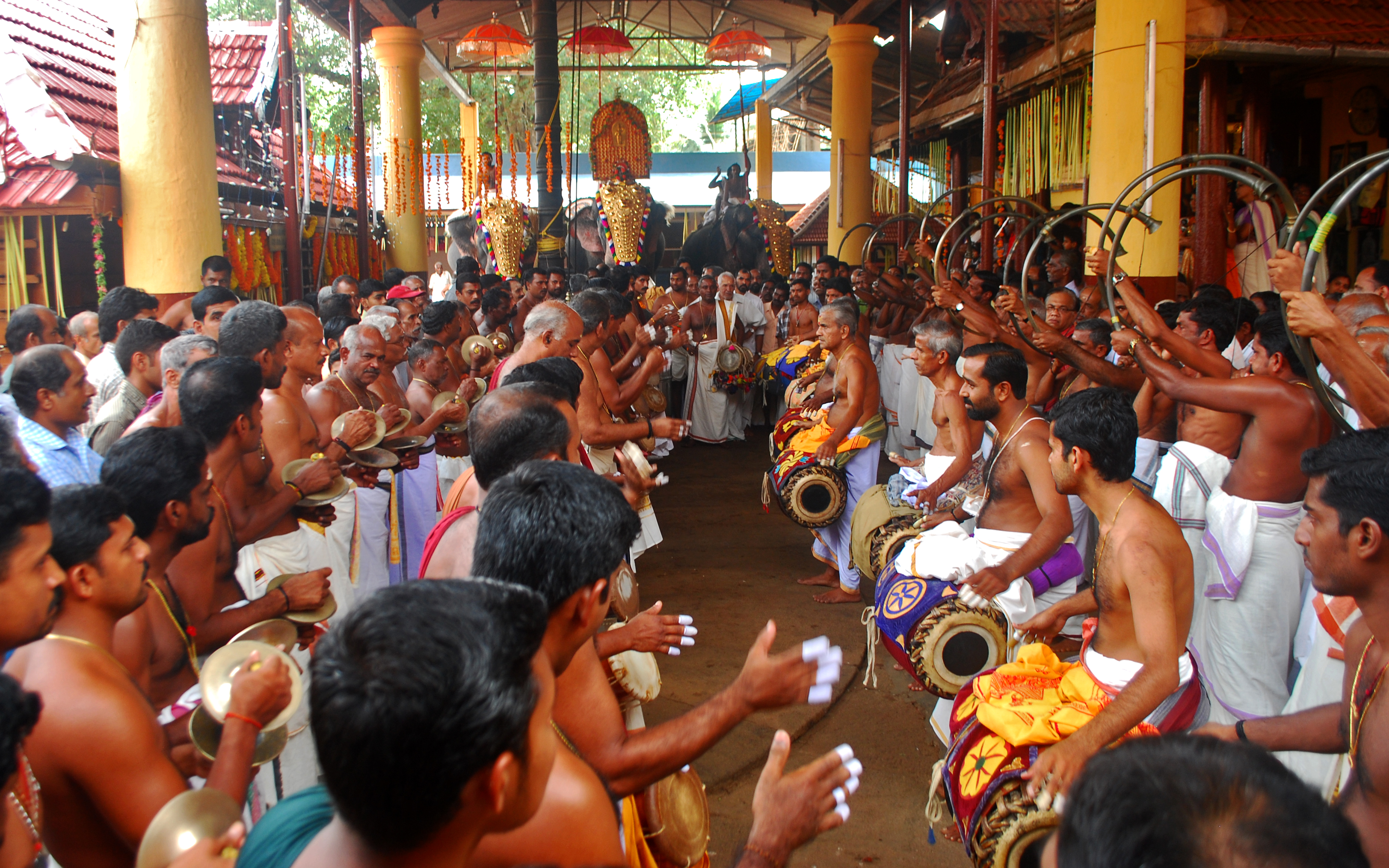 Panchavadayam Means 5 instruments. Used during temple processions in Kerala, India.It is a wonderful orchestration, typical Panchavadyam can have duration of 3 hrs.